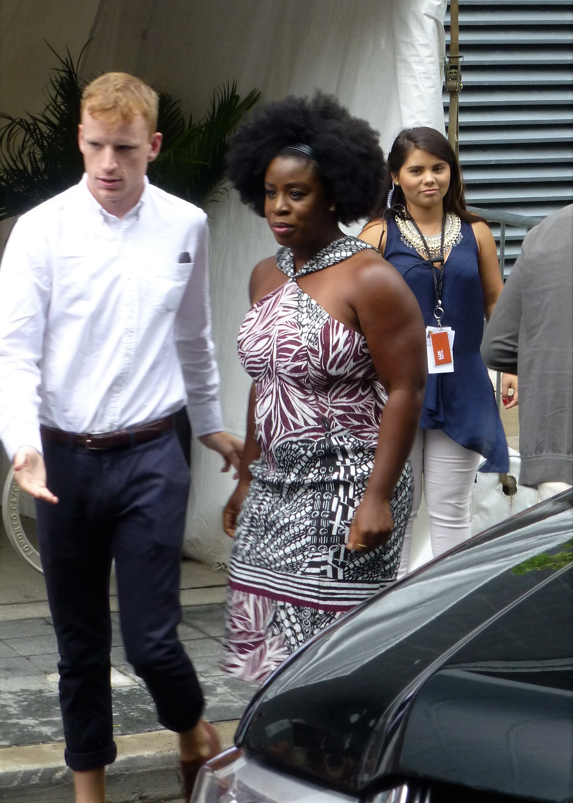 Uzo Aduba at the press conference of American Pastoral, 2016 Toronto Film Festival